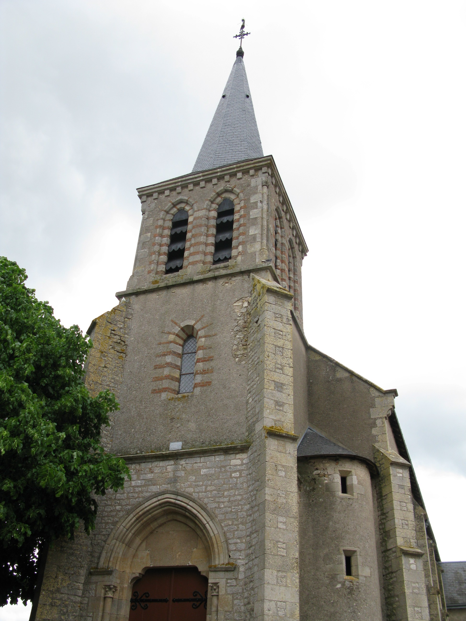 OpenStreetMap(Info)